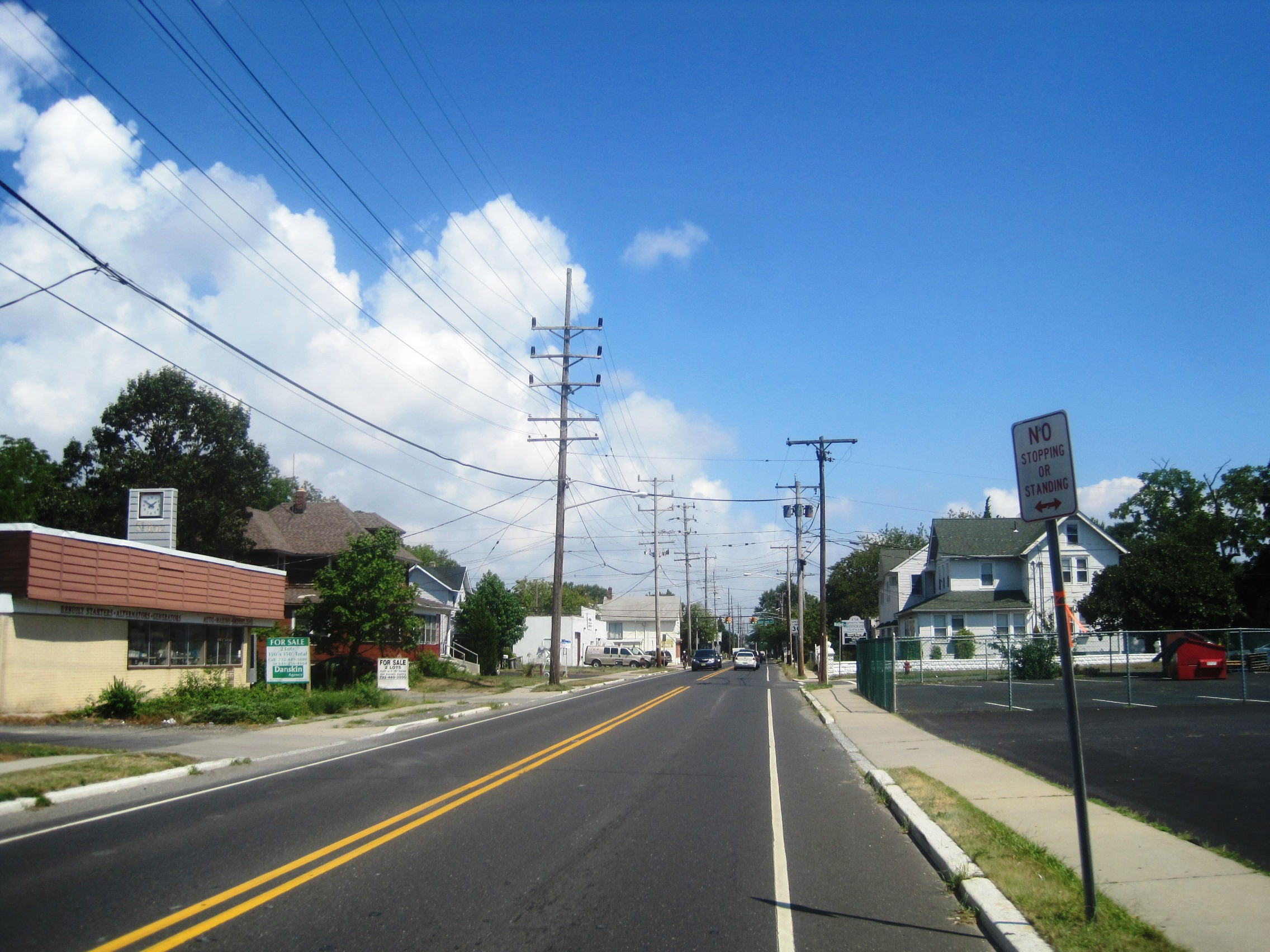 Photo showing West Belmar, New Jersey, a census-designated place within Wall Township. Photo taken along northbound New Jersey Route 71 approaching Seventeenth Avenue.